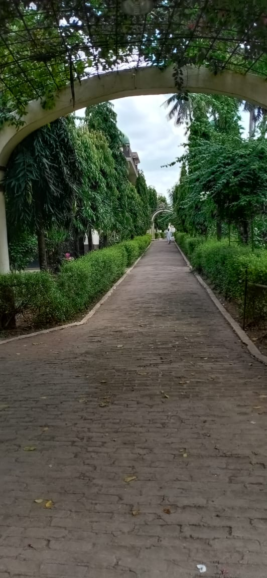 خوبصورت منظر